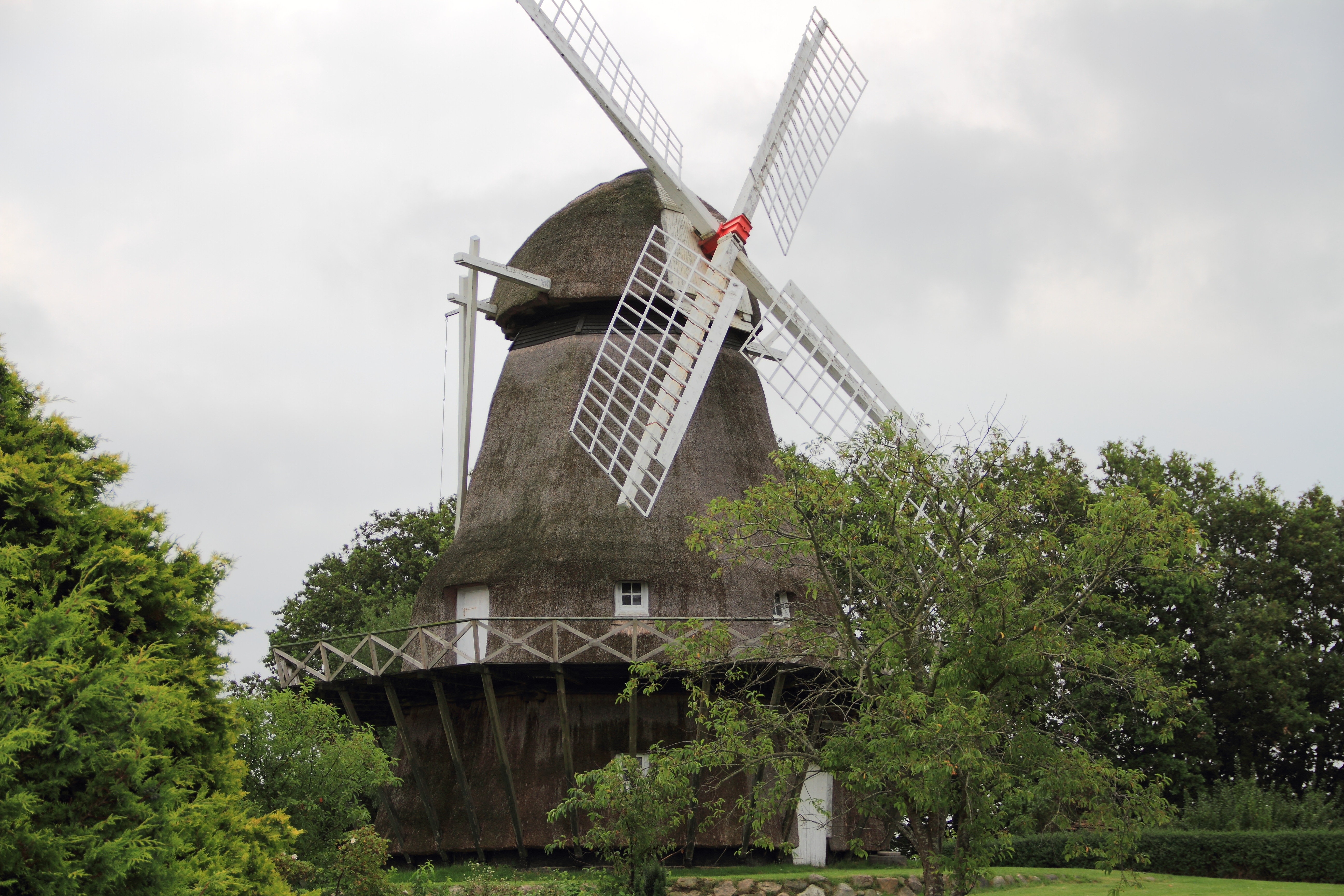 Windmill on the Danish island Ærø in Søby.